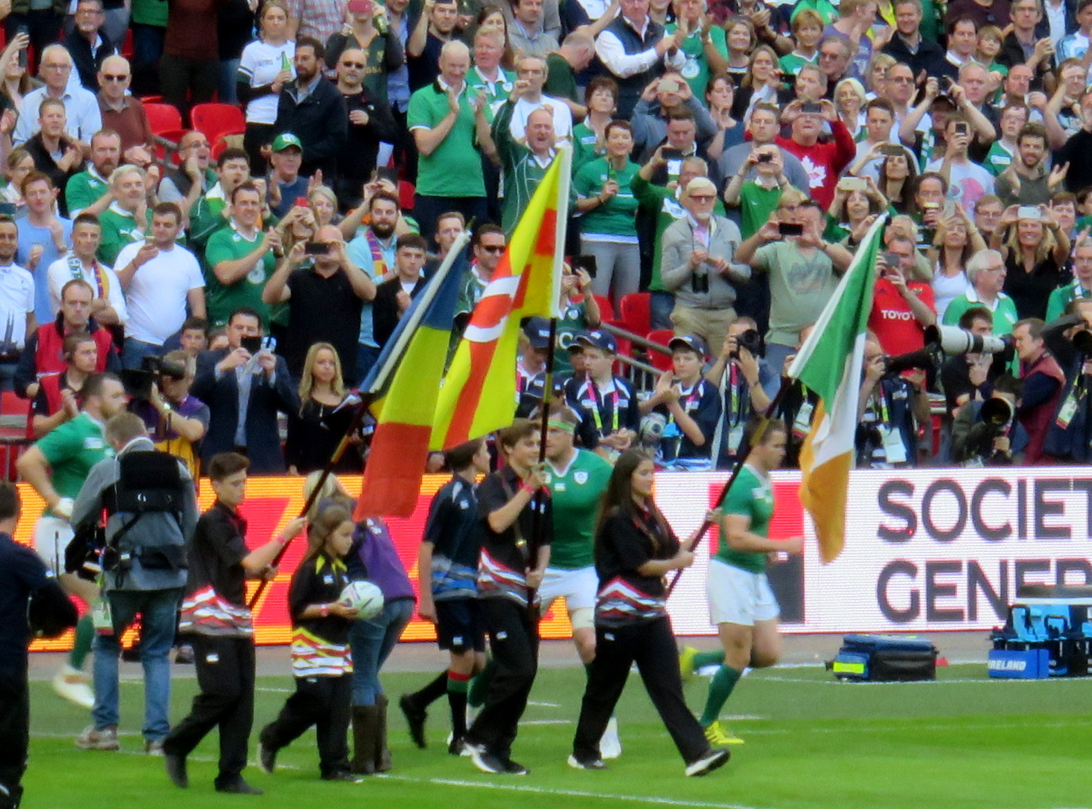 Flags of Republic of Ireland, Ulster and Romania before 2015 Rugby World Cup game Ireland vs Romania at Wembley Stadium, London.